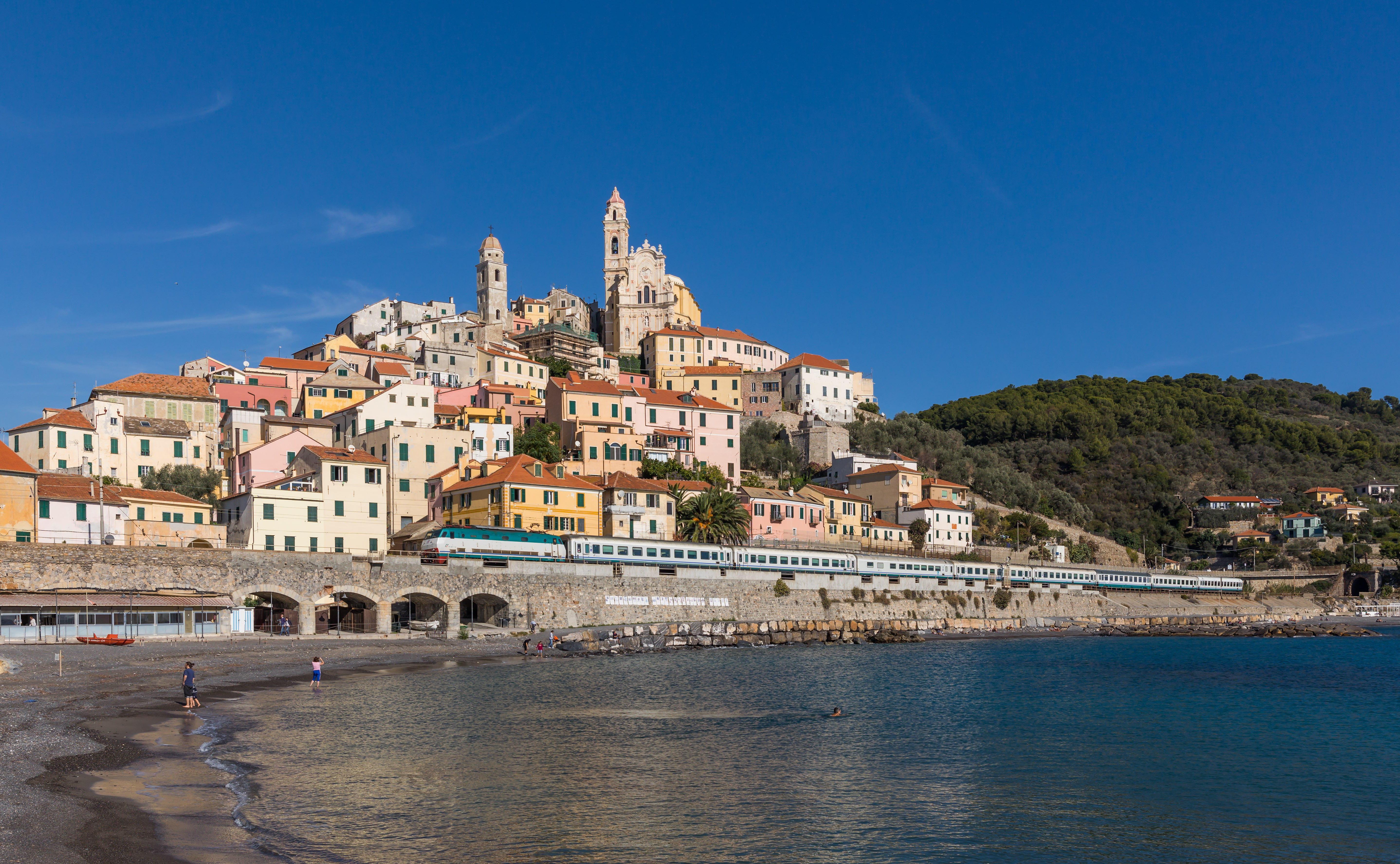 A E 444R hauls a Trenitalia Intercity past the town of Cervo, Italy.